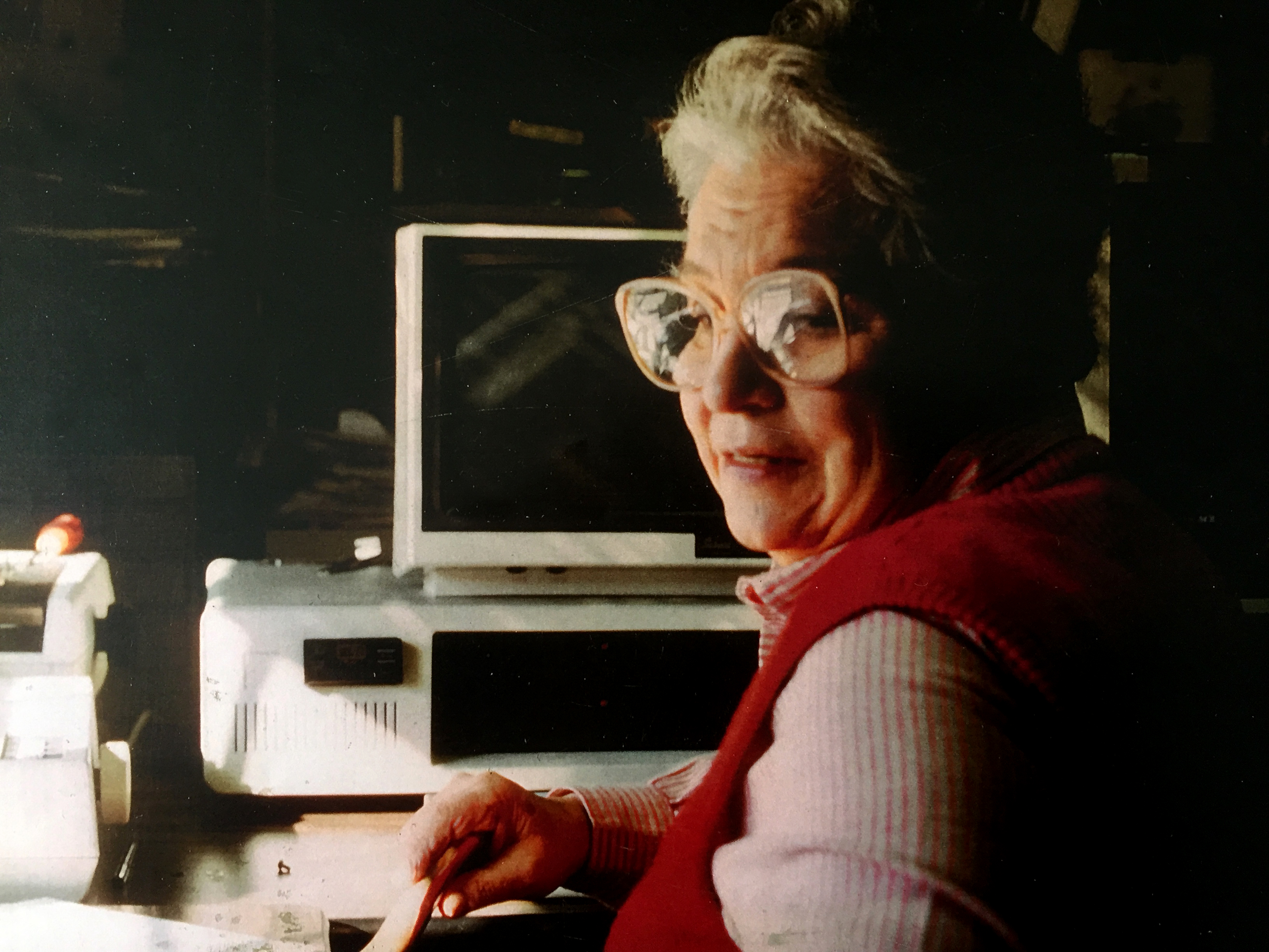 In October 1986, took place the "Making Waves. Interactive Art/Science Exhibition", in Evanston, Illinois.